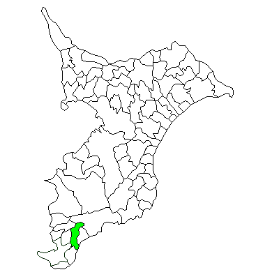 Location Map of former Maruyama Town, Chiba Prefecture, Japan, now part of Minamiboso City.